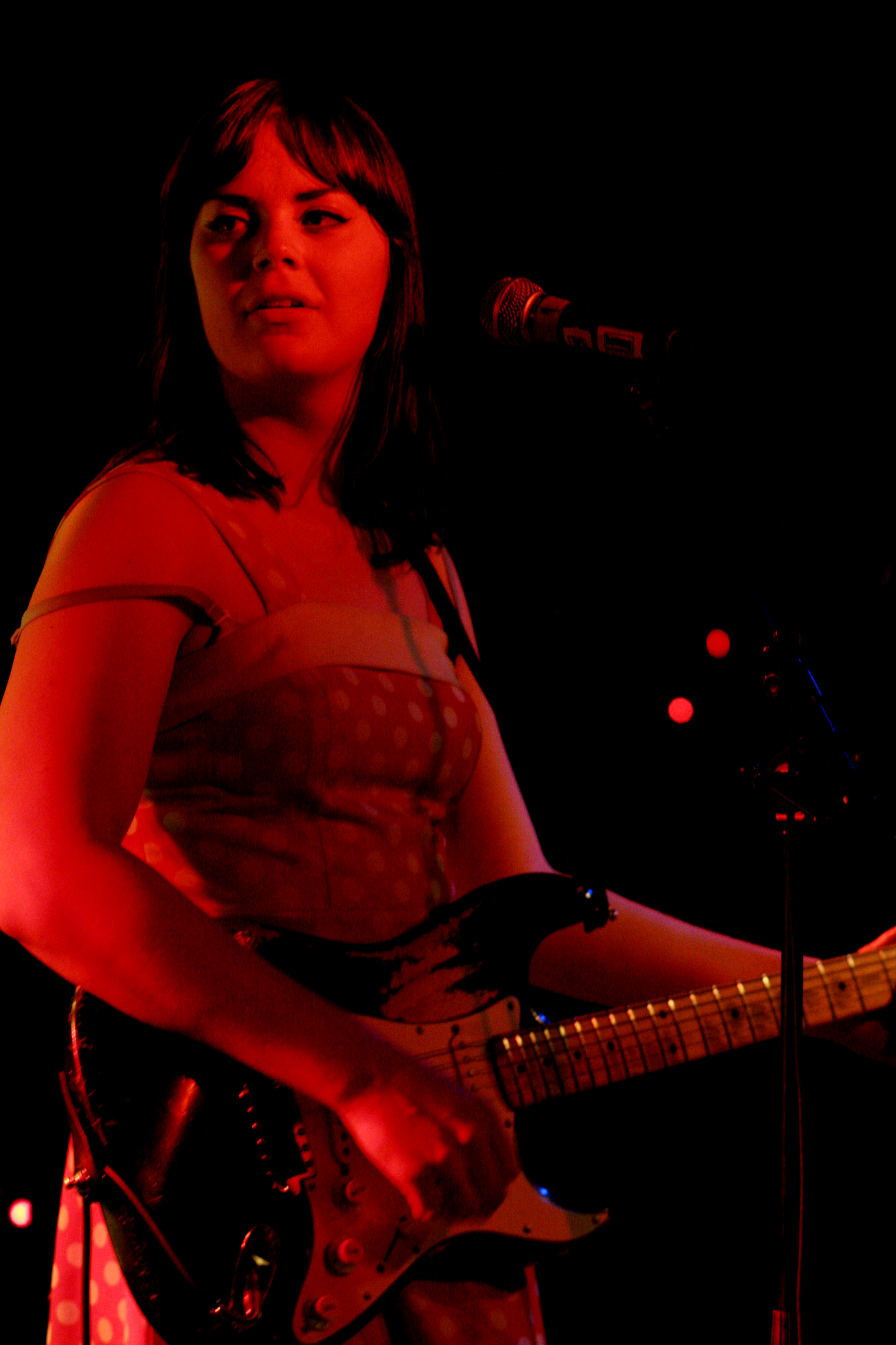 Ida Maria, in 2007.